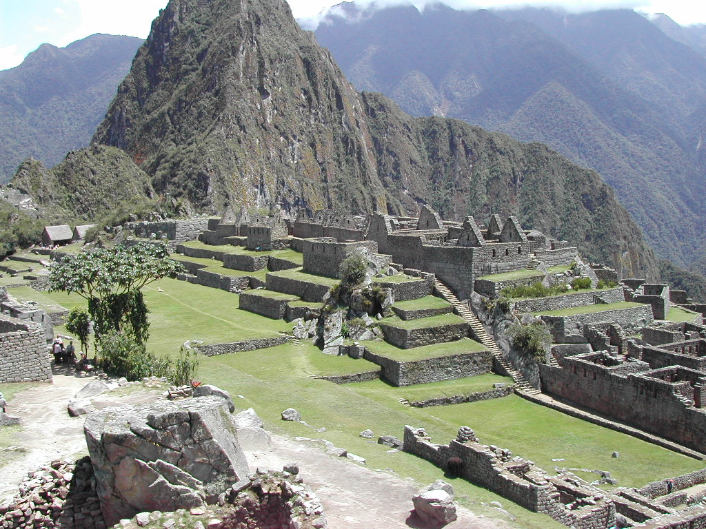 Historic Sanctuary of Machu Picchu (Peru)